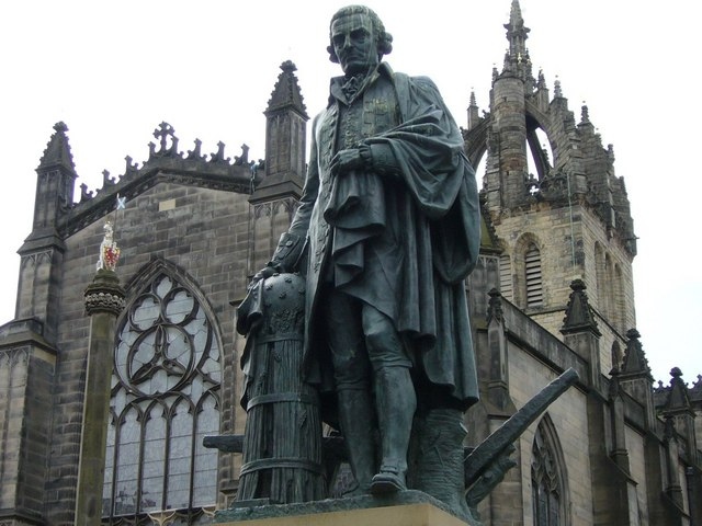 Adam Smith statue in Edinburgh's High Street with St. Giles High Kirk behind.